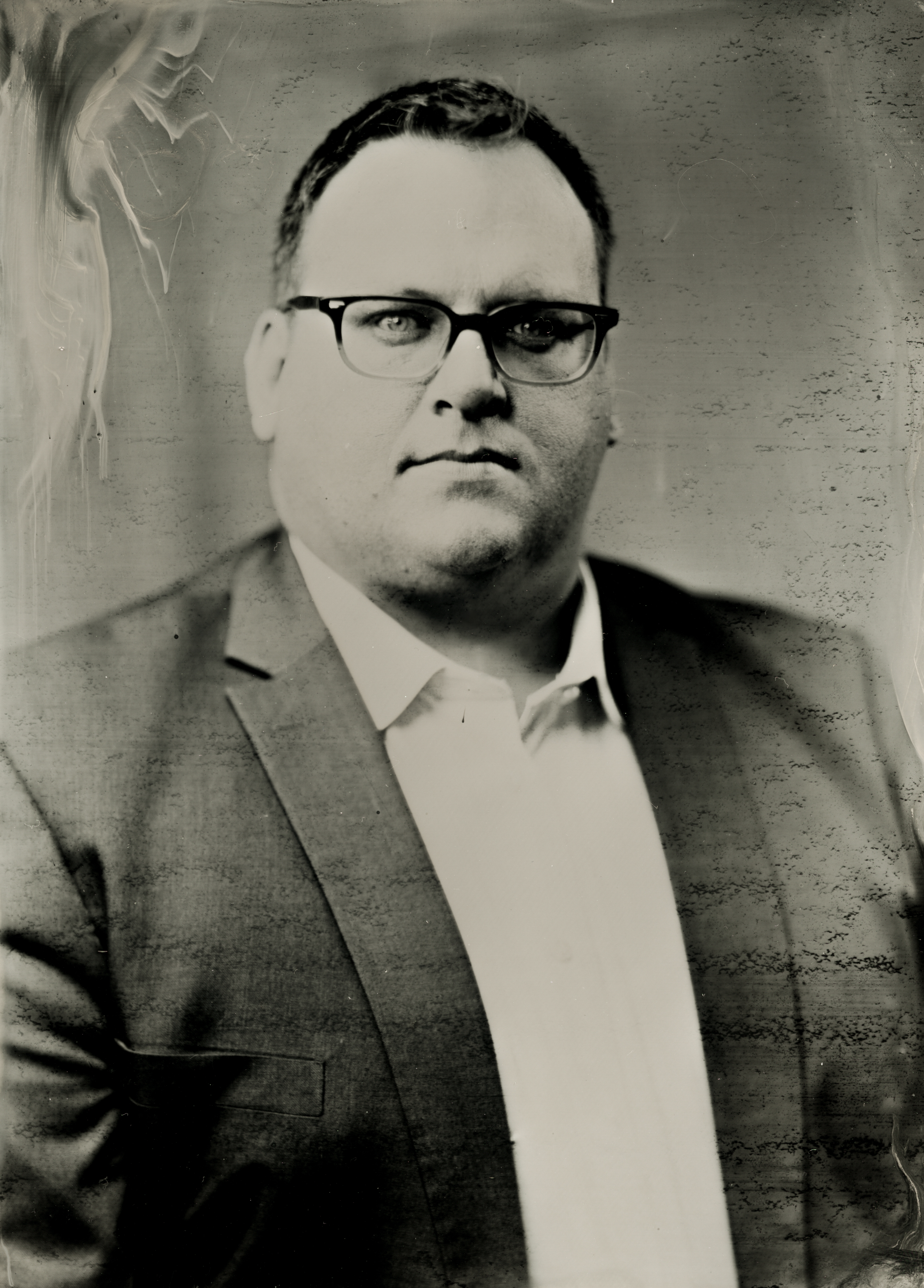 Wet plate collodion image of Joshua Boschee by Shane Balkowitsch. An American politician, who was elected to the North Dakota House of Representatives in the 2012 state elections.